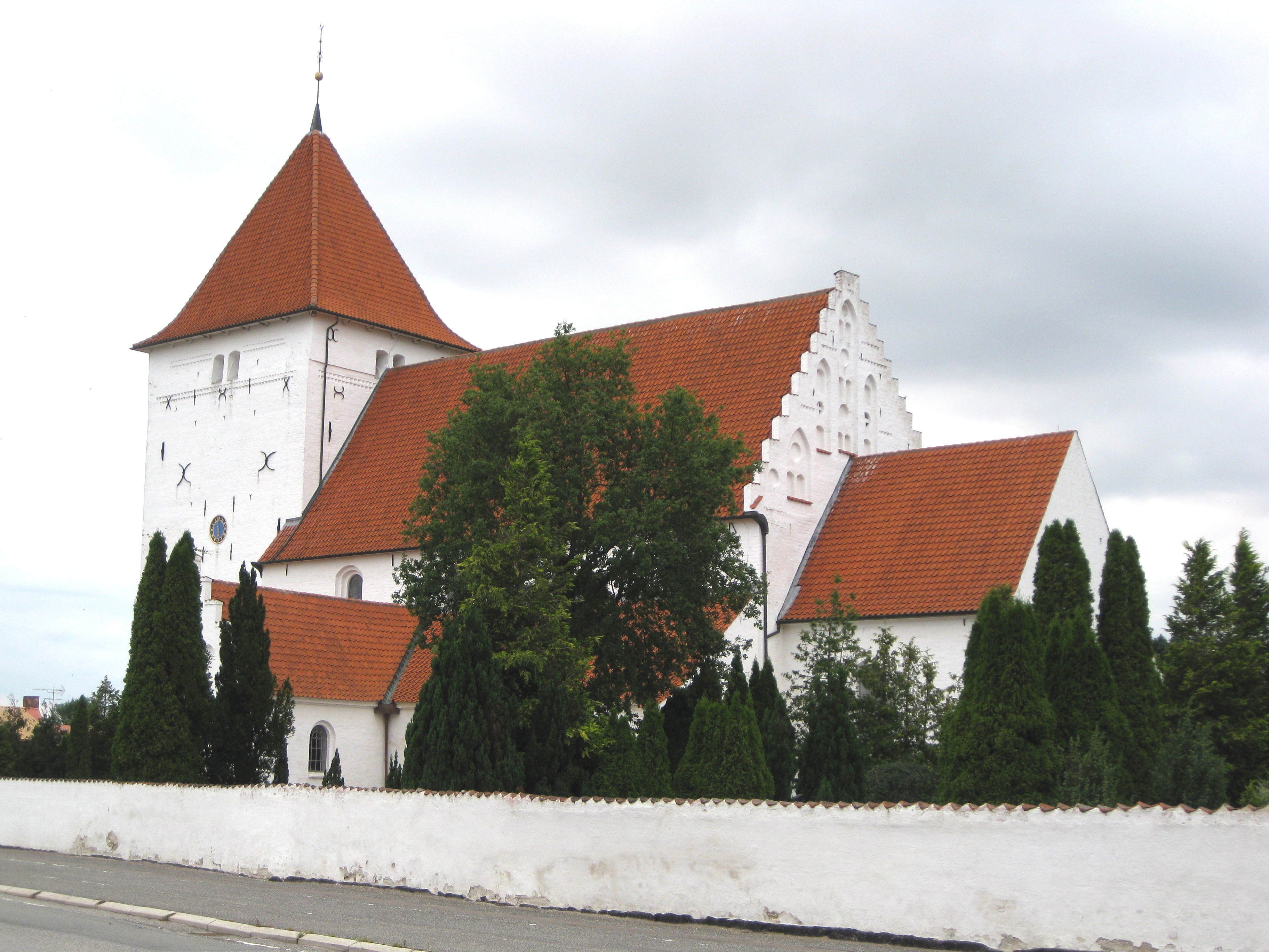 The church "Toreby Kirke" in the village "Toreby". The village is located on the island Lolland in east Denmark.